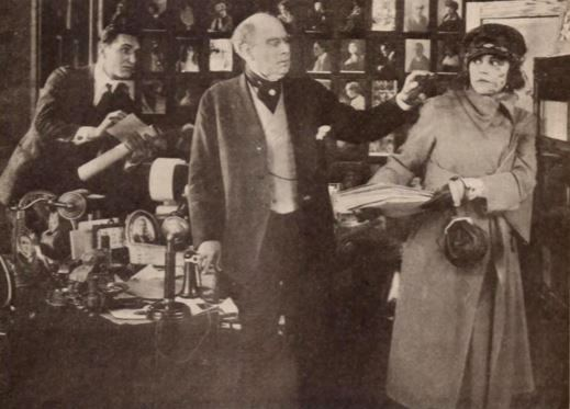 Still from the American romantic drama film The Ordeal of Rosetta (1918) with Alice Brady in dual roles, on page 17 of the April 20, 1918 Exhibitors Herald.